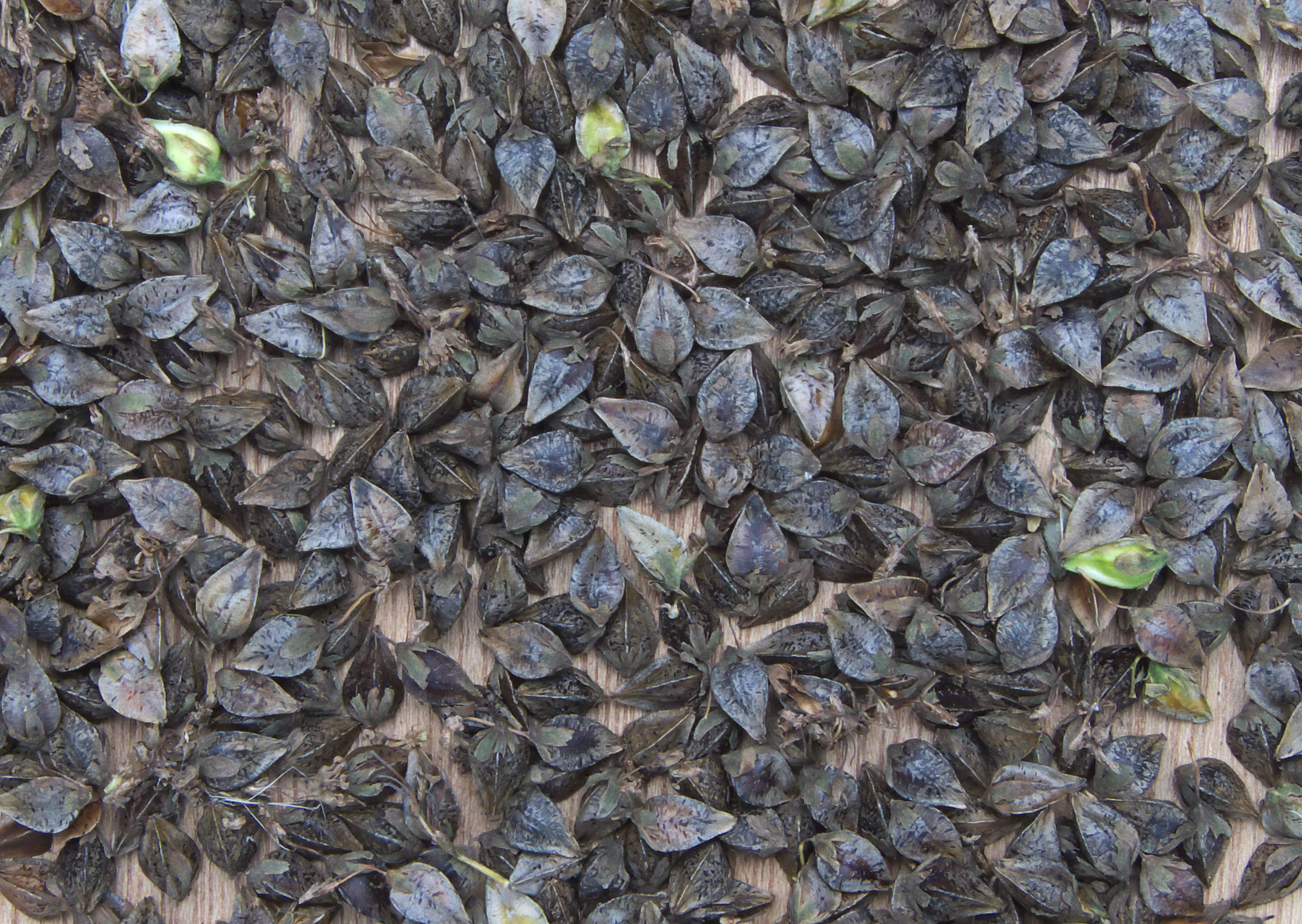 Fagopyrum esculentum fruits of a stand alone plant. Fruits with different ripeness.